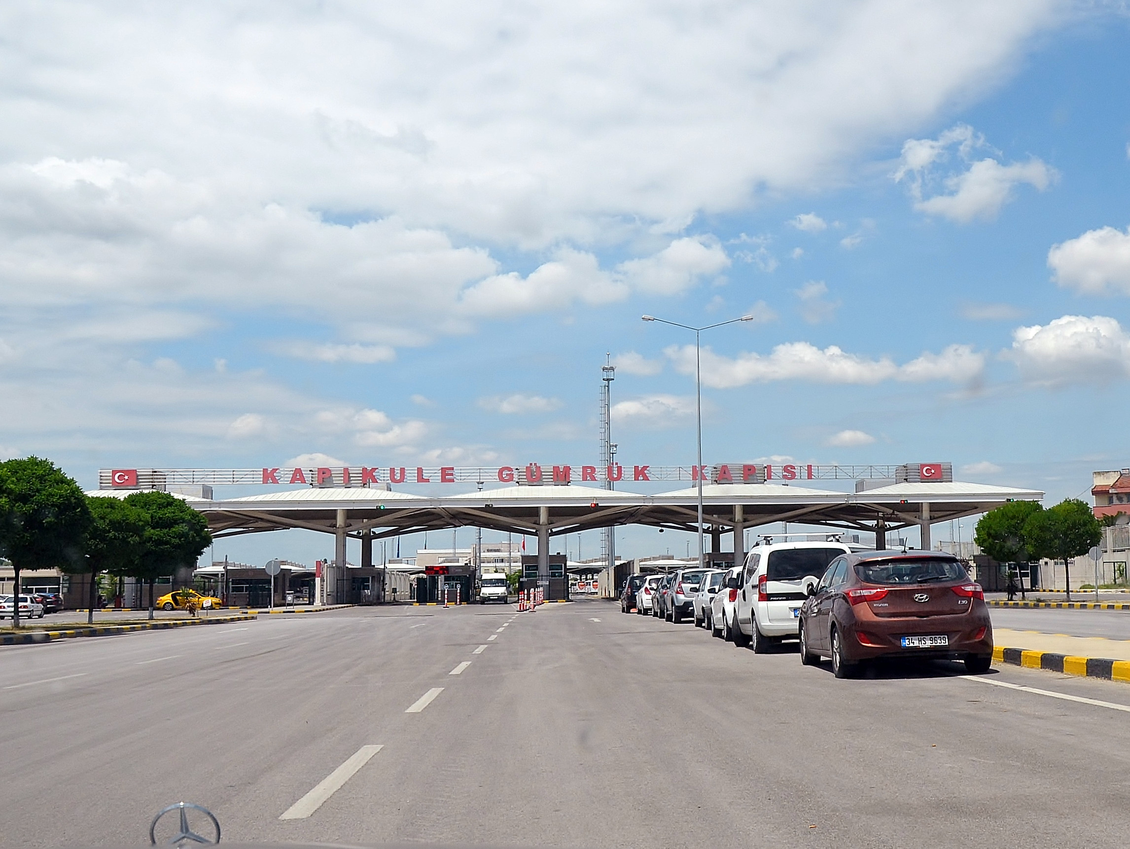 Kapıkule Border Crossing Turkey to Bulgaria on the state road D-100